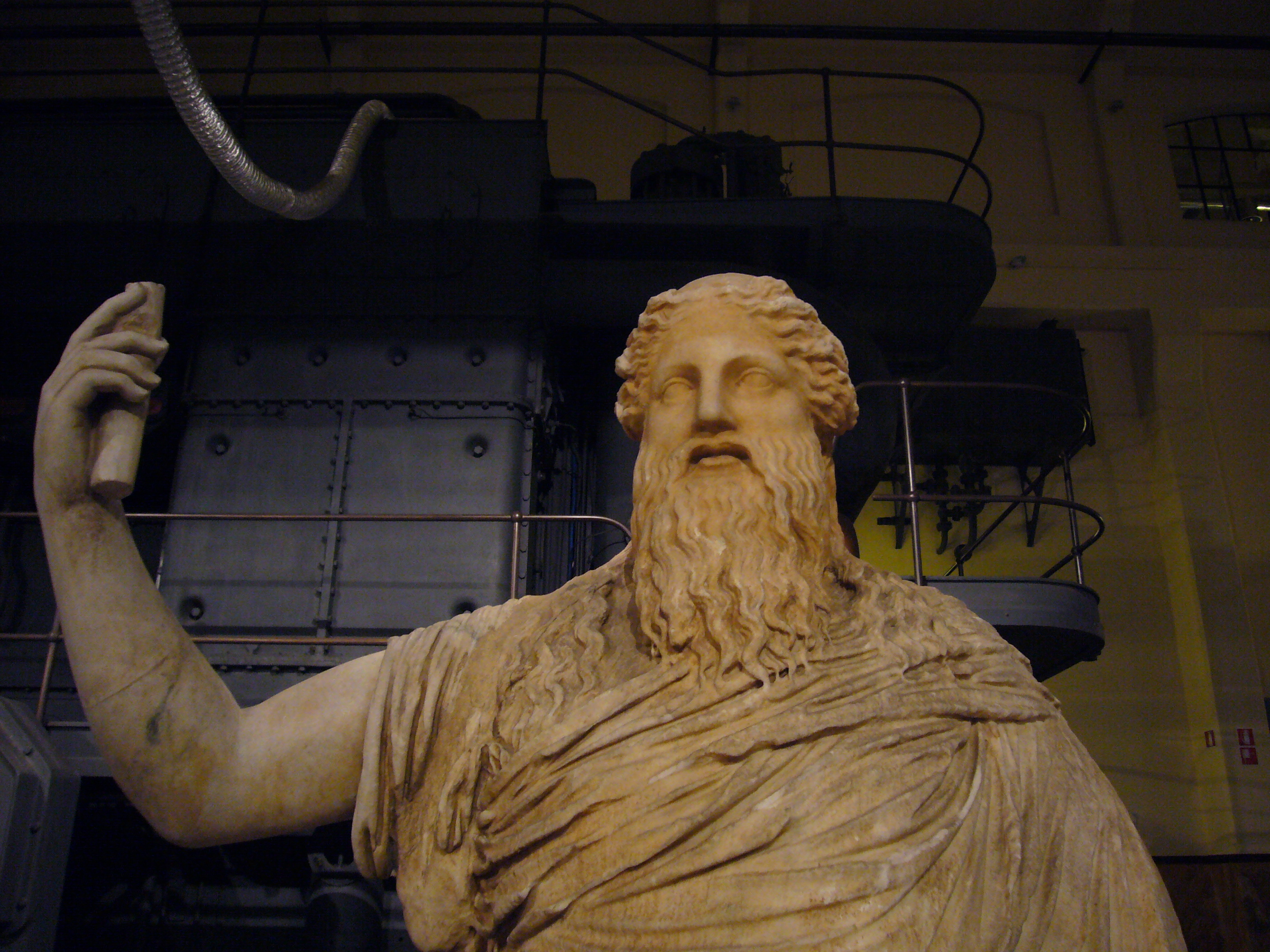 Statue of Dionysus at the Centrale Montemartini Museum, Rome.